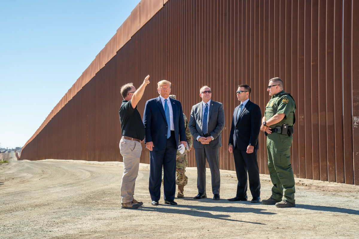 President Donald J. Trump, joined by United States Customs and Border Protection Acting Commissioner Mark Morgan and Department of Homeland Security Acting Secretary Kevin McAleenan Department of Homeland Security, visit the border area of Otay Mesa, Wednesday, Sept. 18, 2019, a neighborhood along the Mexican border in San Diego, Calif. (Official White House Photo by Shealah Craighead)